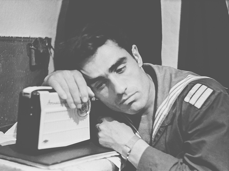 "Thoughts of his native land" (Sevastopol, 1966). Receiver is Atmosfera-2 (1960) or Atmosfera-2M (1962)